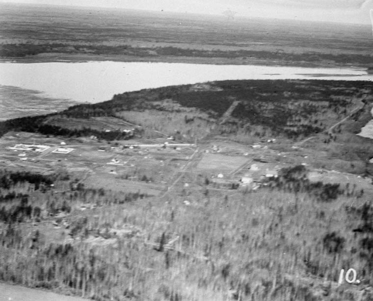 Fort Smith, (then) capital of the Northwest Territories, Canada.